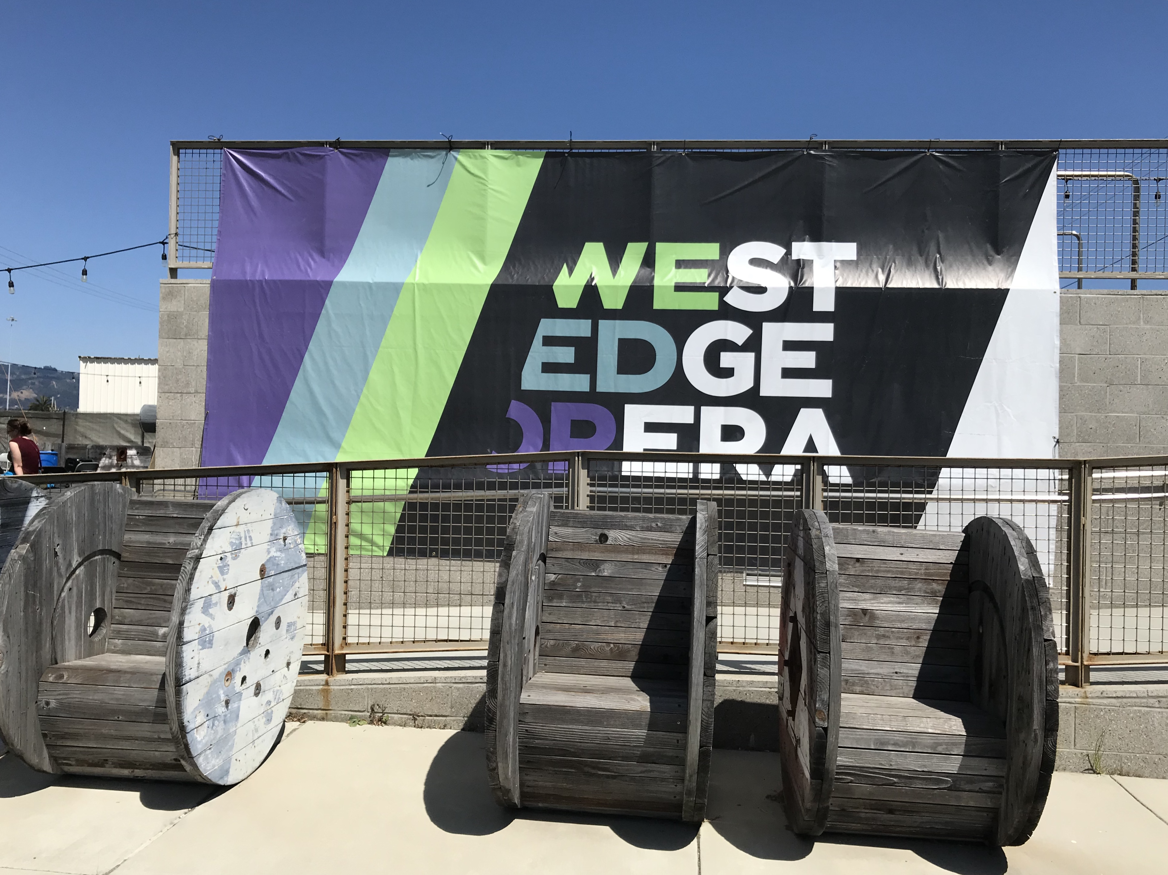 West Edge Opera banner at Oakland's Bridge Yard for their 2019 season.